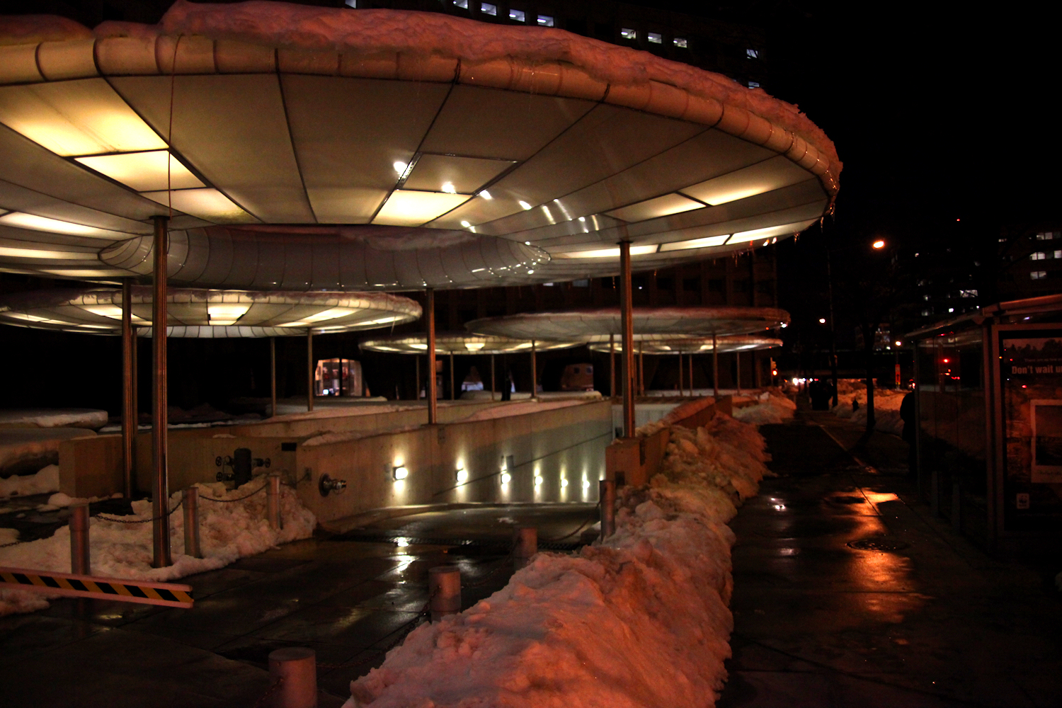 The U.S. Department of Housing and Urban Development headquarters (Robert C. Weaver Federal Building) at 451 7th Street SW, Washington, D.C. Taken at about 6:30 PM in the evening looking north along 7th Street SW in the aftermath of the Second North American blizzard of 2010.